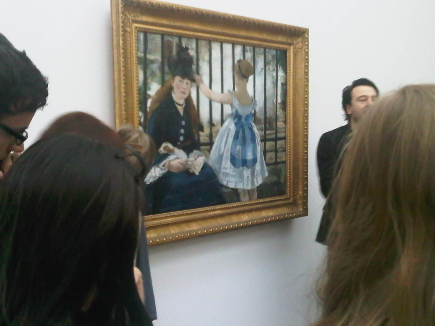 In front of Manet painting "Railway", exhibition "Bilder einer Metropole"